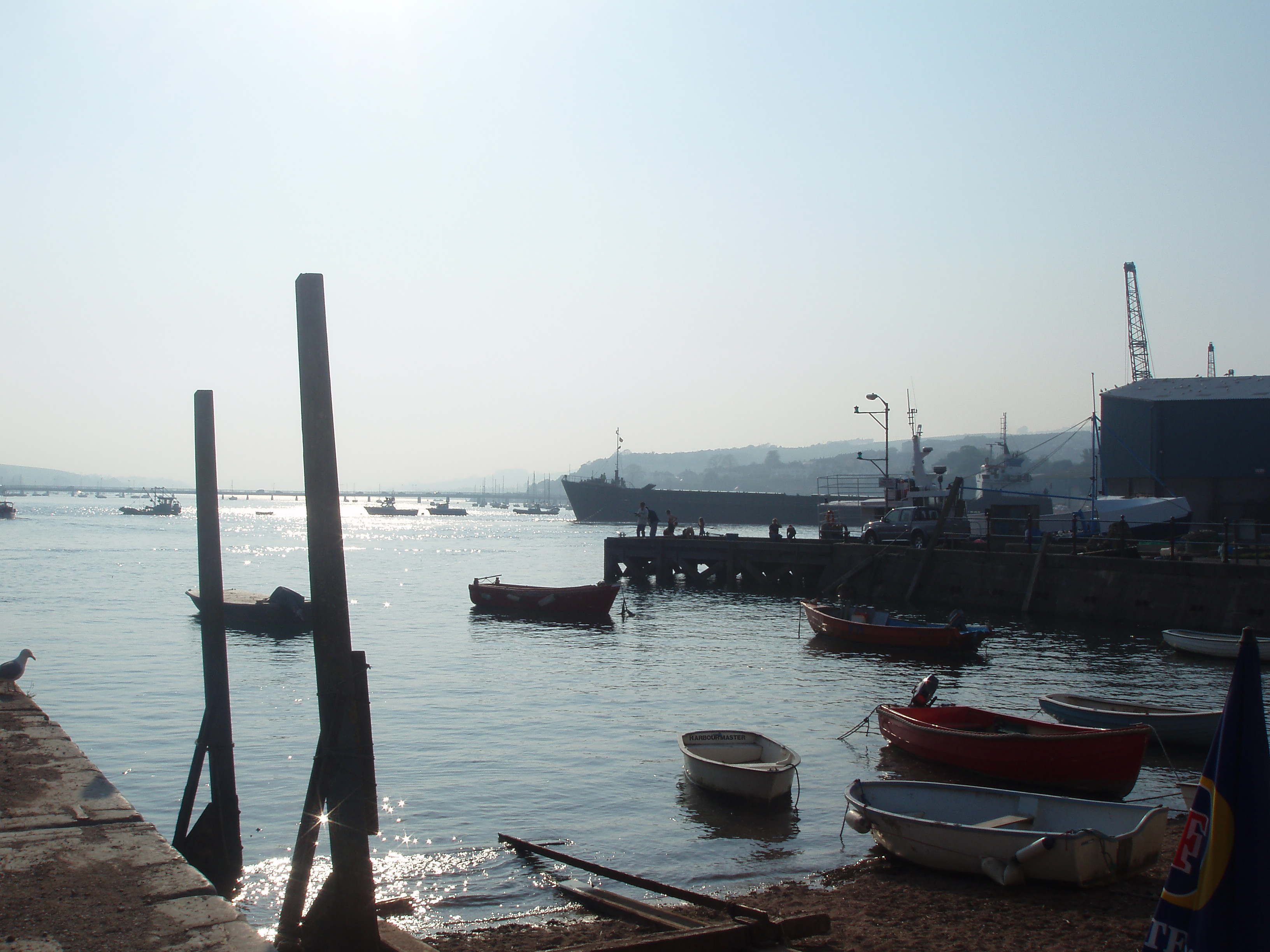 Teignmouth Harbour from New Quay